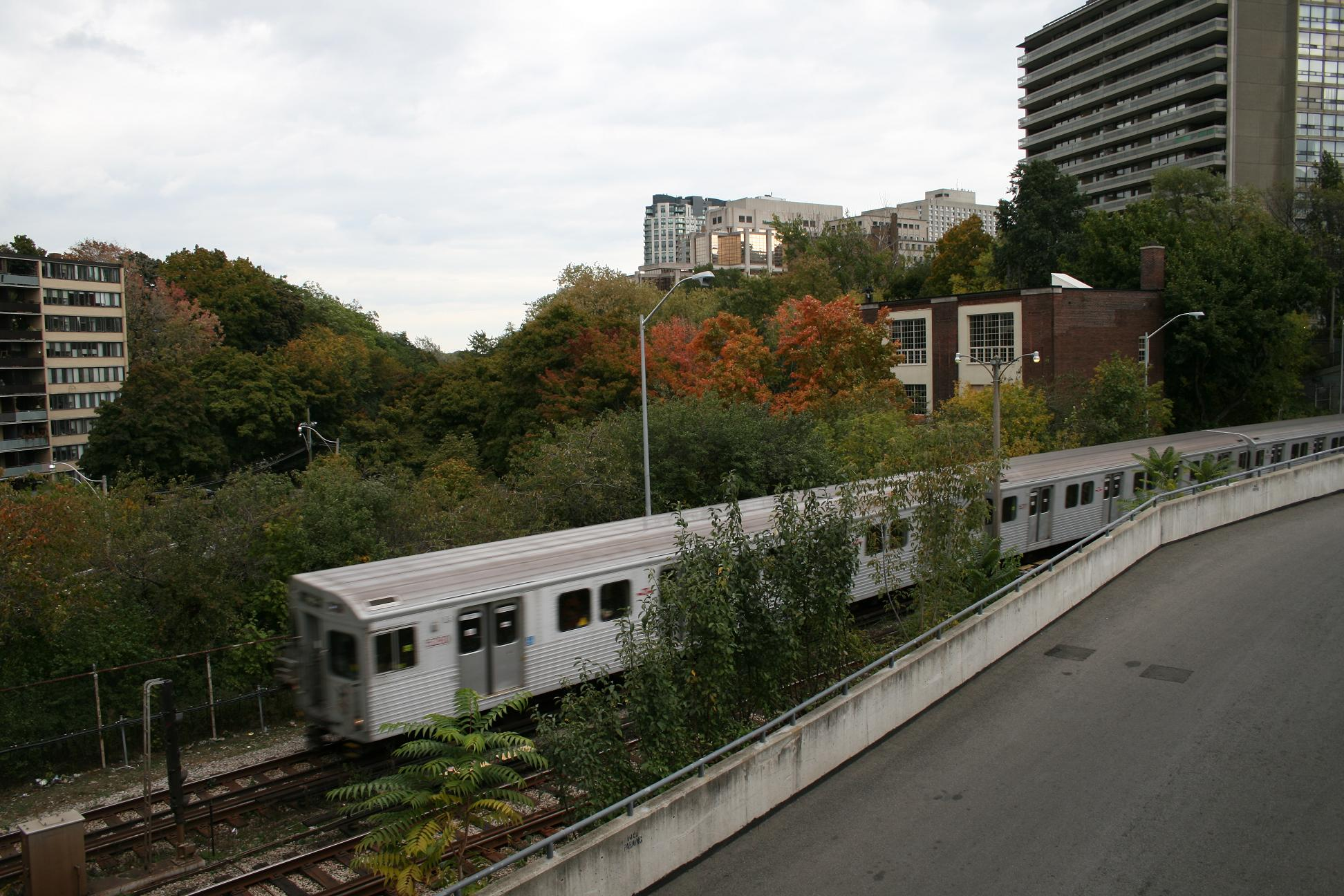 I took this picture of the Studio Building myself